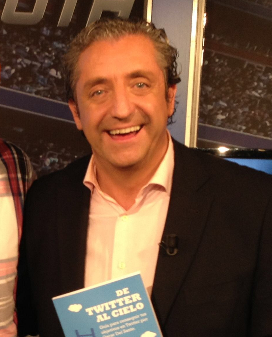 Josep Pedrerol in Punto Pelota, a Spanish TV program.